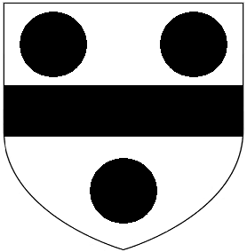 Arms of de Adeston of Adeston in the parish of Holbeton, Devon: Argent, a fess between three pellets (Blazon per Pole, Sir William (d.1635), Collections Towards a Description of the County of Devon, Sir John-William de la Pole (ed.), London, 1791, p.467)